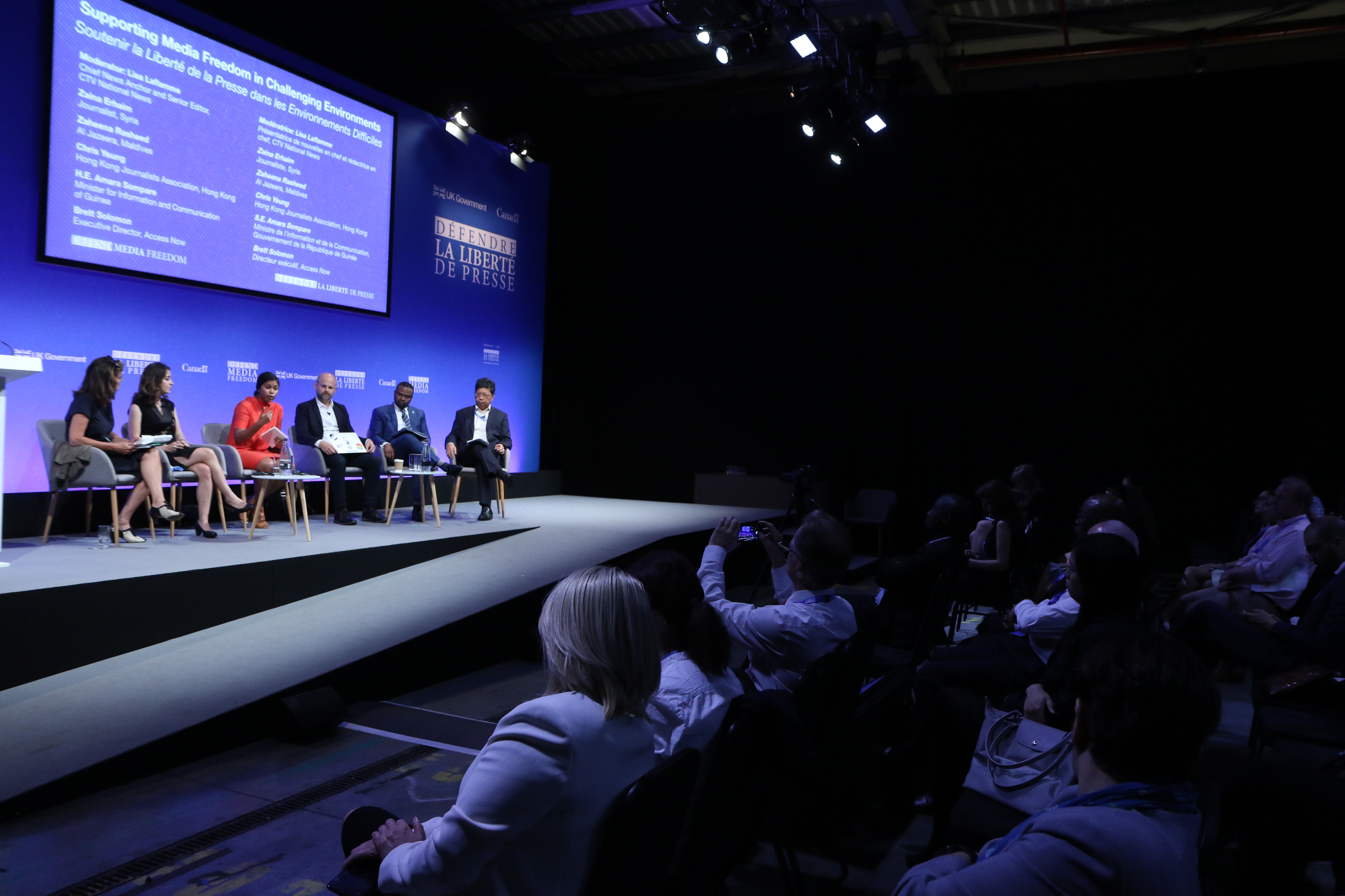 Supporting Media Freedom in Challenging Environments session at the Global Conference for Media Freedom in London. Lisa LaFlamme, Zaina Erhaim, Zaheena Rasheed, Brett Solomon, Amara Sompare, Chris Yeung.